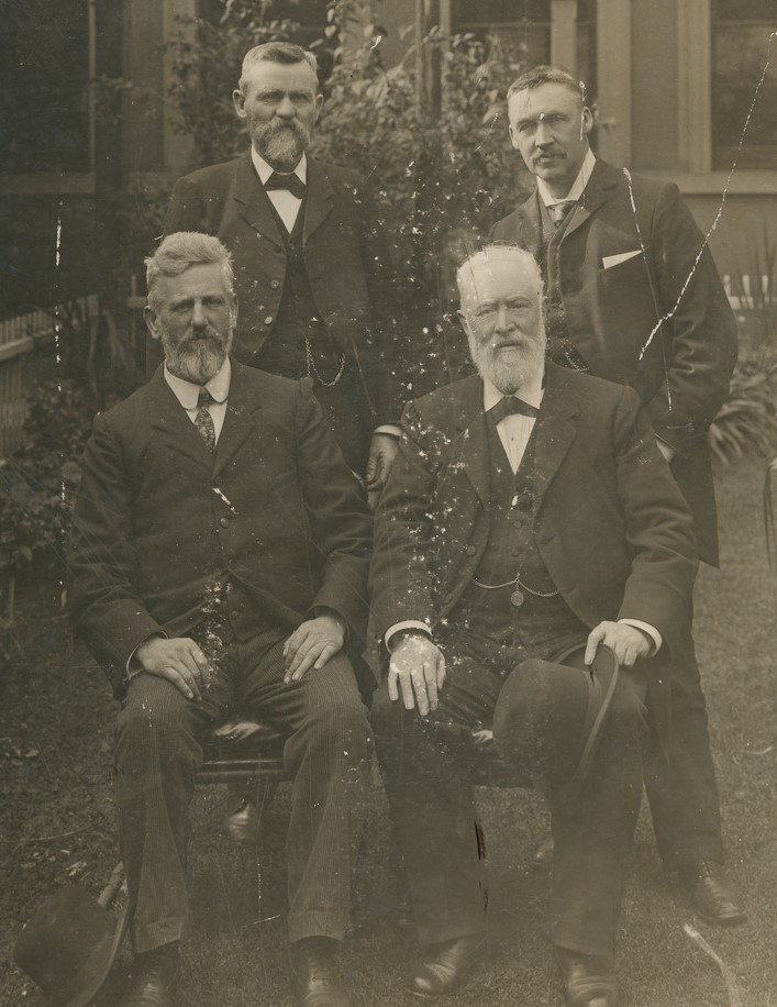 Photo of the ministry of Thomas Price, c. 1905. Left to right: Standing rear: Laurence O'Loughlin MHA, Archibald Peake MHA. Sitting front: Thomas Price MHA, Andrew Kirkpatrick MLC.